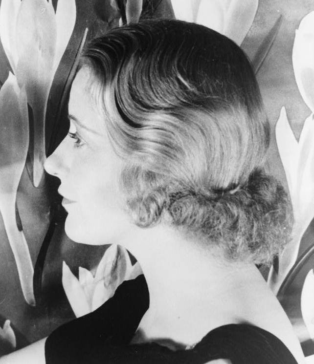 Grace Moore. January 5, 1933